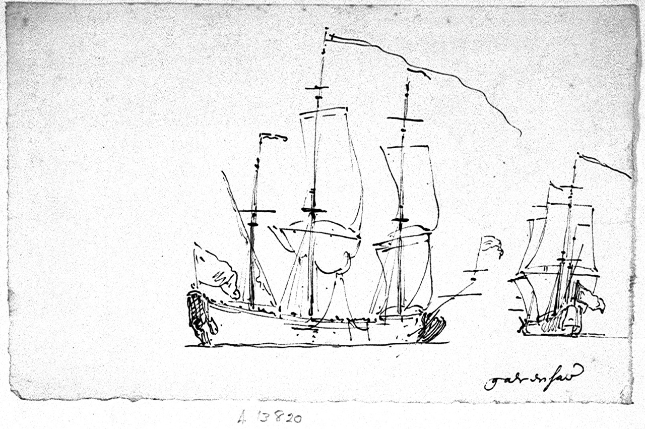 The 'Guernsey' before a light breeze A starboard broadside view of the ‘Guernsey’ before a light breeze under fore course and fore and main topsails. Another ship is close-hauled on the port tack in the right background. This is an unsigned pen and brown ink drawing by the Younger. It is inscribed ‘gaerensae.’ The first ‘Guernsey’ was built in 1654, made a fireship in 1688, reconverted 1689 and condemned in 1693. The second ‘Guernsey’ was built in 1696 and rebuilt in 1717. The drawing could therefore be as late as 1700. The 'Guernsey' before a light breeze